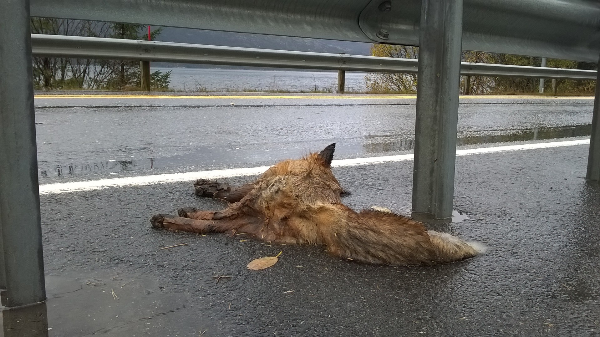 Dead red fox. Roadkill.